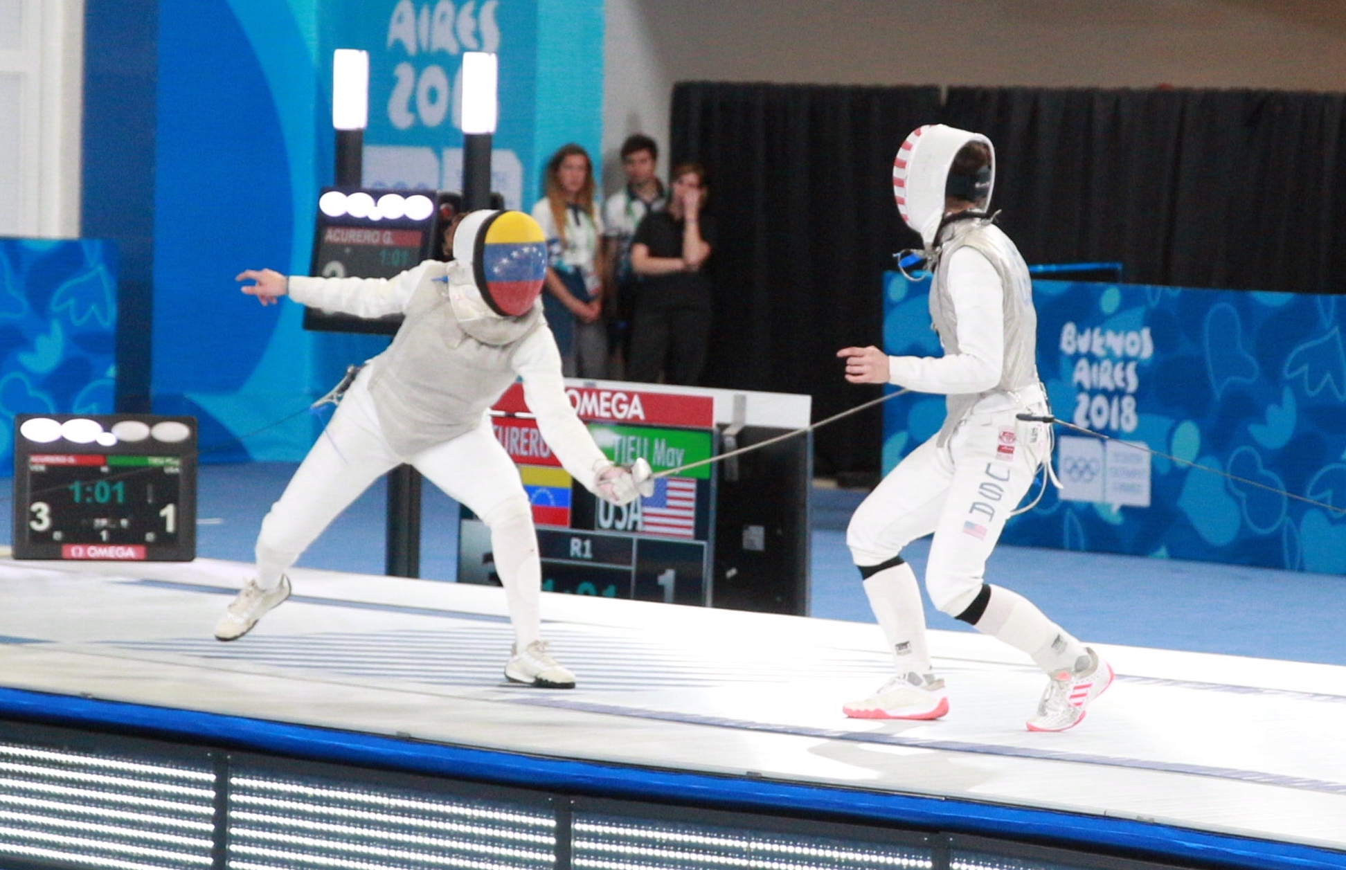 Fencing at the 2018 Summer Youth Olympics at 7 October 2018 – Girls' foil Bronze match – Anabella Acurero (VEN) Vs May Tieu (USA) 7:8